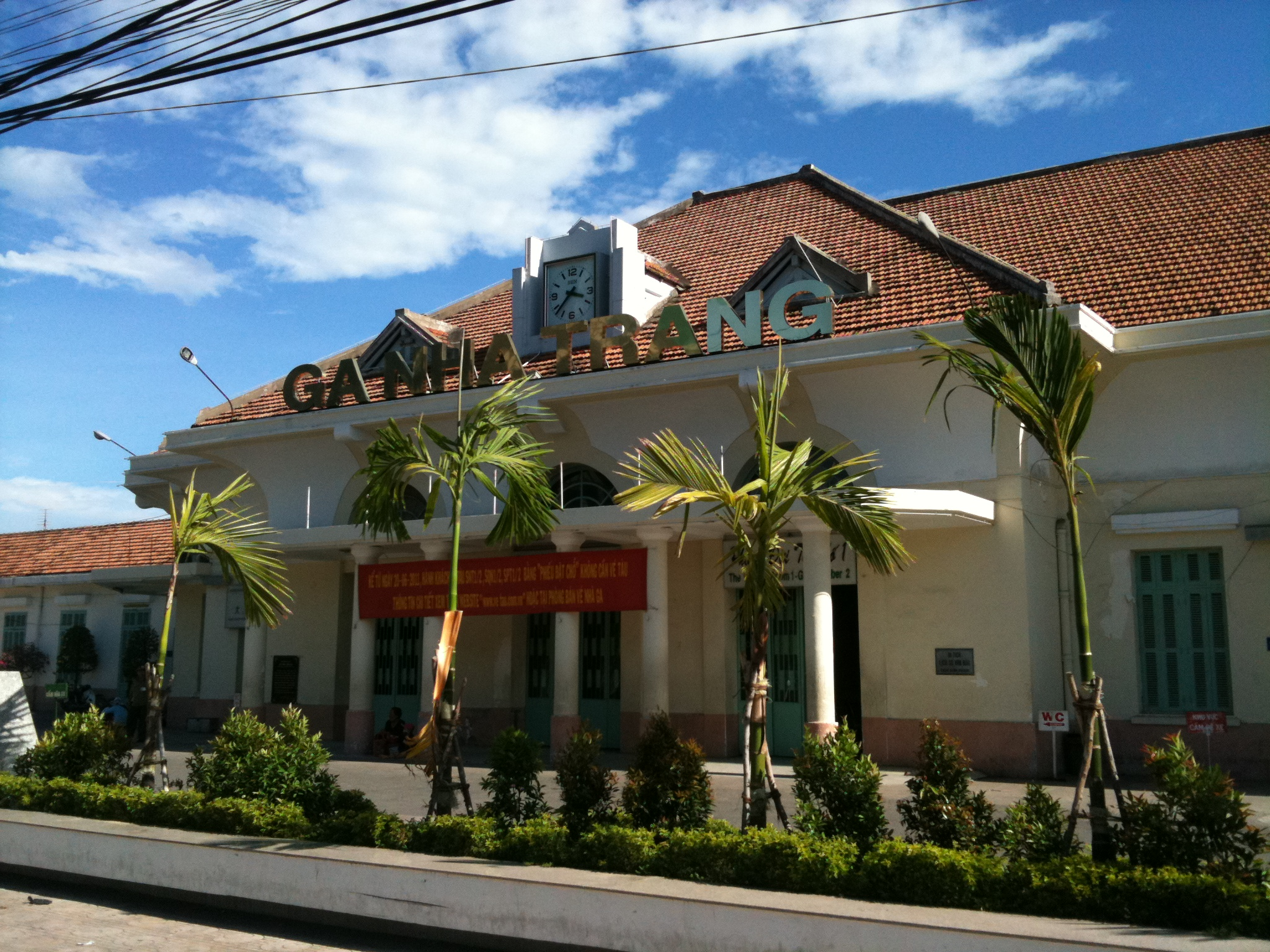 A view of the front face of Nha Trang Railway Station.